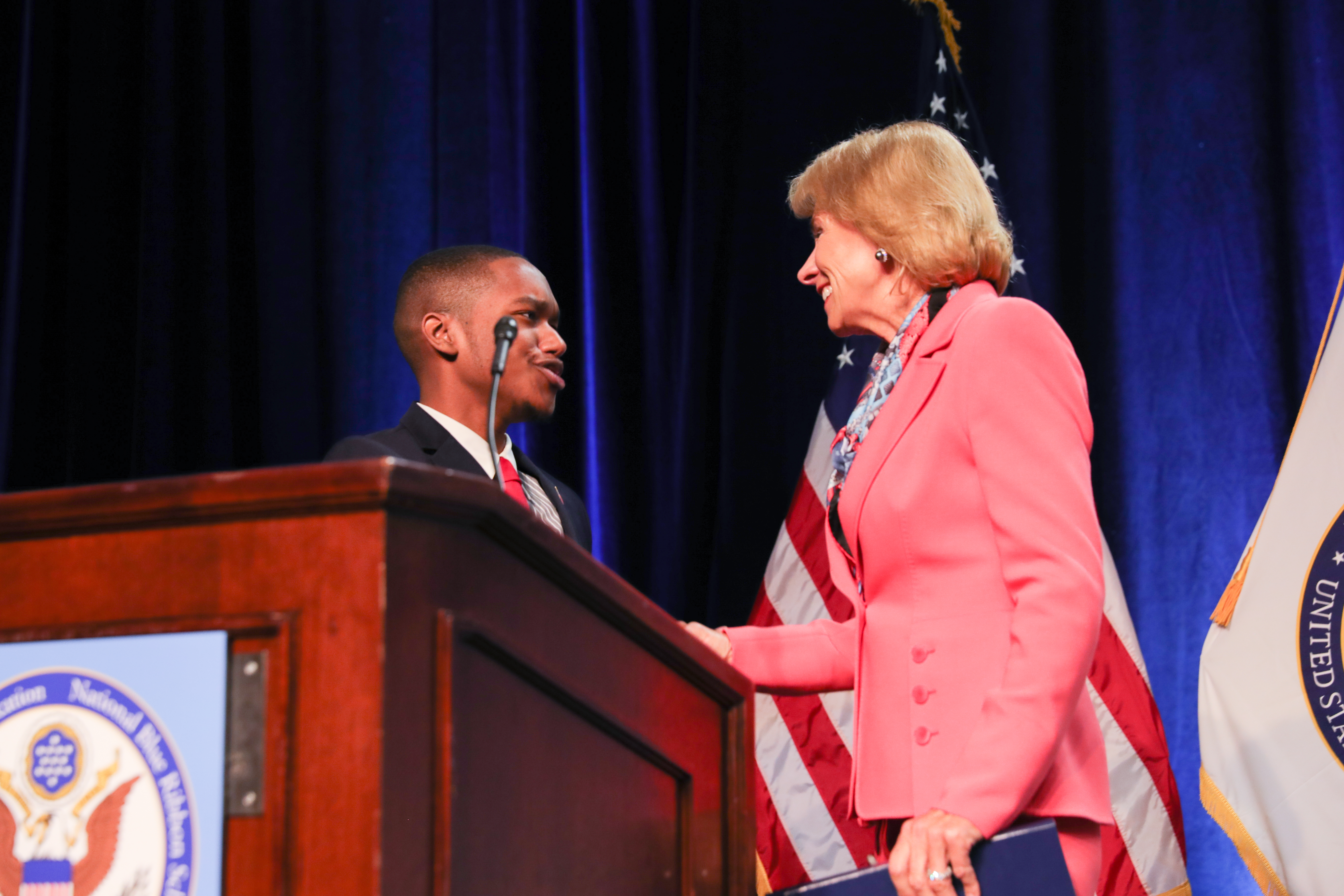 Official photos of Secretary of Education Betsy DeVos, 07 Nov 2017. Photos labeled "SBD National Blue Ribbon Schools" by Education Dept. Released via a FOIA request from AltGov2